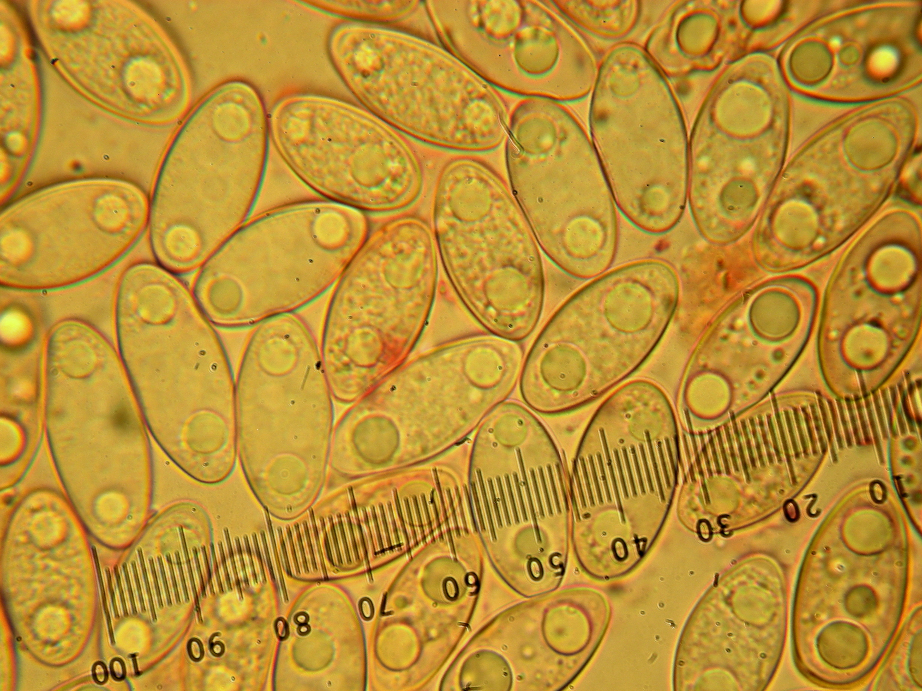 Gyromitra esculenta (Pers.) Fr. Location: Medford, Oregon, USA Observation Notes: These were found in SE Medford at about 2900 ft elevation.Spores were about 23.0 X 12.0 microns. smooth with two oil droplets. For more information about this, see the observation page at Mushroom Observer.